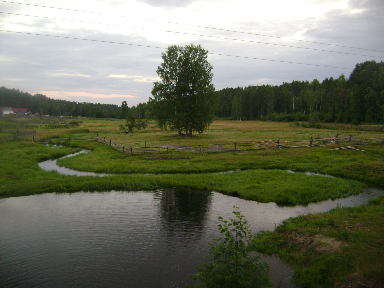 The Kokmanka River in the Kokman village